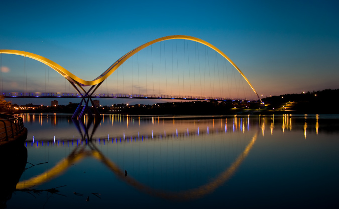 The Infinity Bridge is a public pedestrian and cycle footbridge across the River Tees in the borough of Stockton-on-Tees in the north east of England